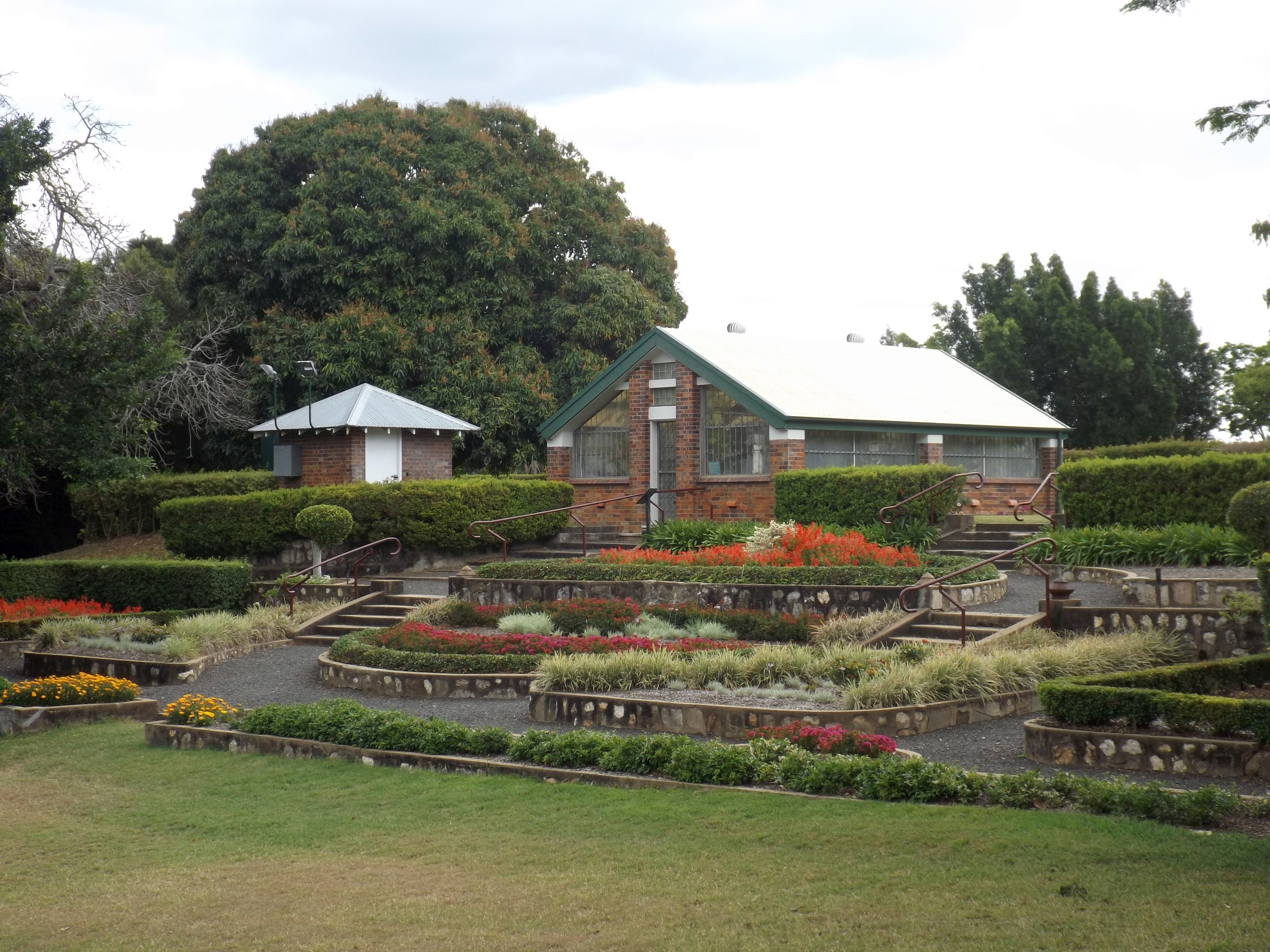 Photo of bush houses at Queens Park, Ipswich, Queensland, Australia.